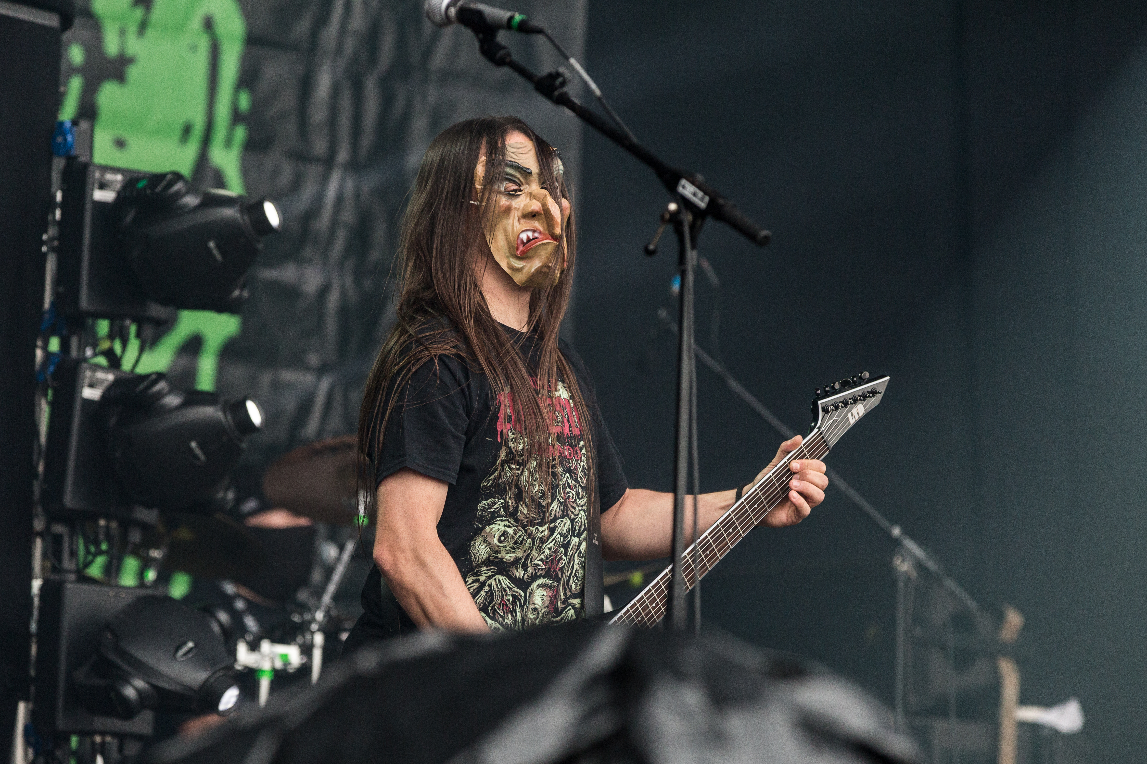 The German goregrind band GUT at the Party.San Metal Open Air 2016 in Obermehler-Schlotheim/Germany.